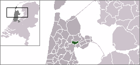 Locator map of Dutch municipalities in Noord-Holland (LocatieWognum.png)